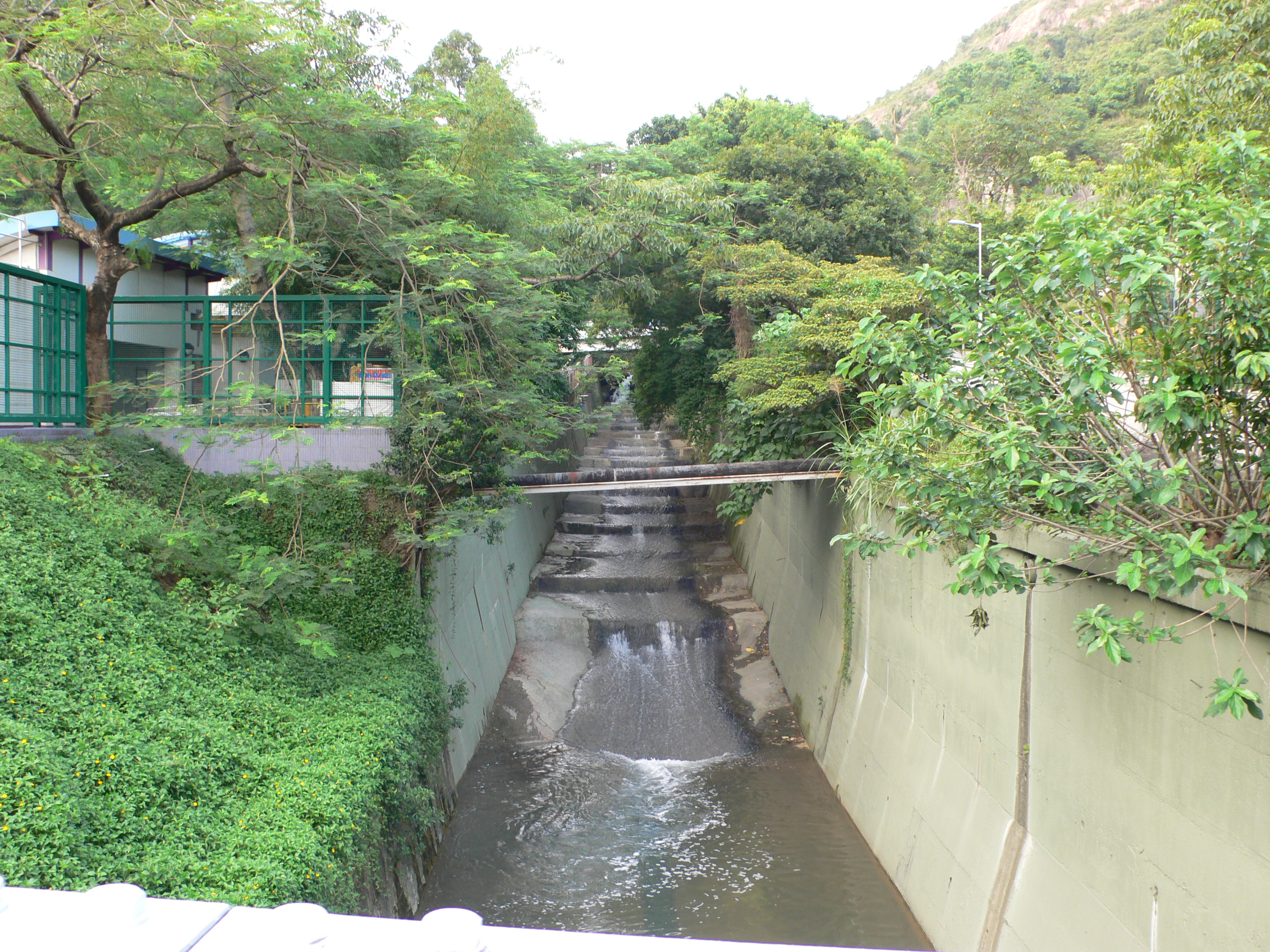 JOrdan Valley Nullah next to the Shum Wan Shan Water Pumping Station